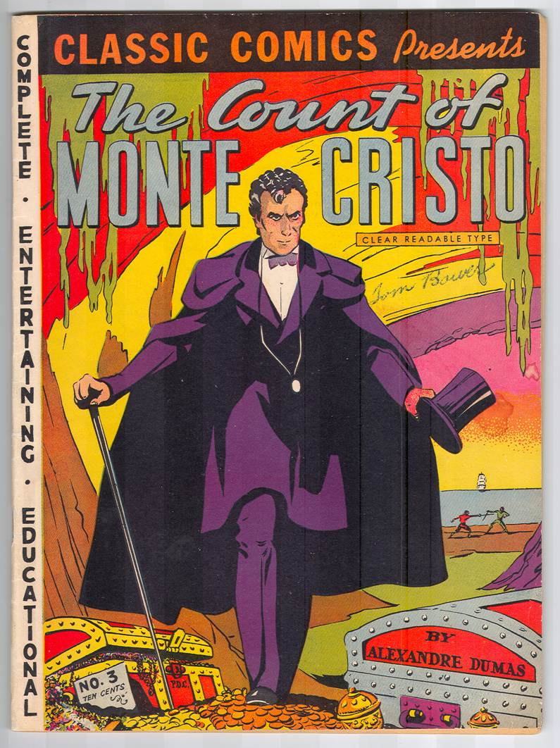 Cover scan of a public domain comic book.